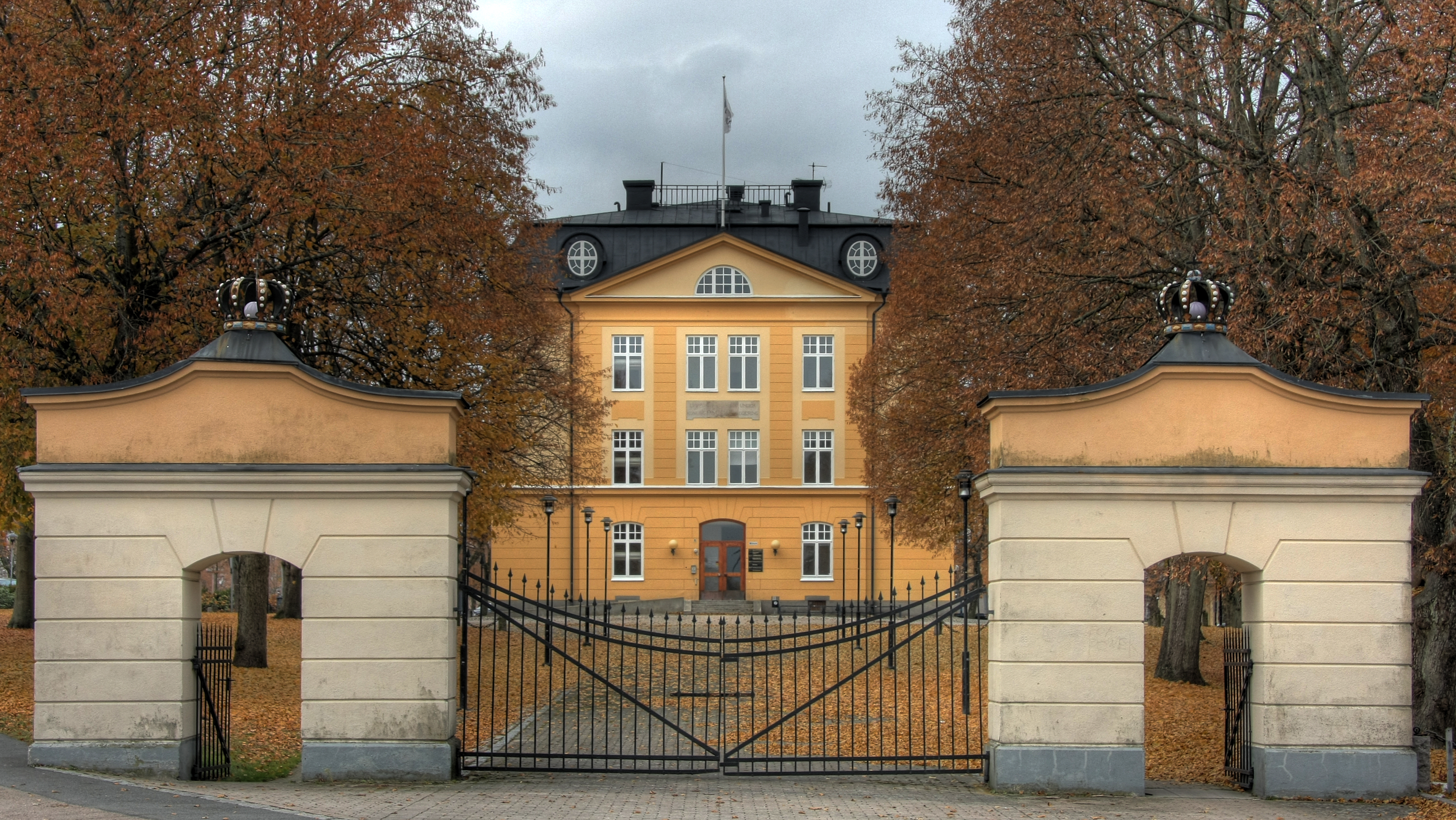 Former T4 military building in Hässleholm, Sweden